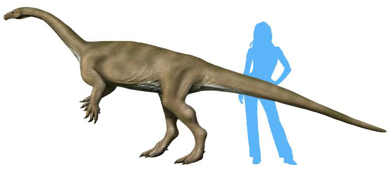 Restoration of Macrocollum itaquii.